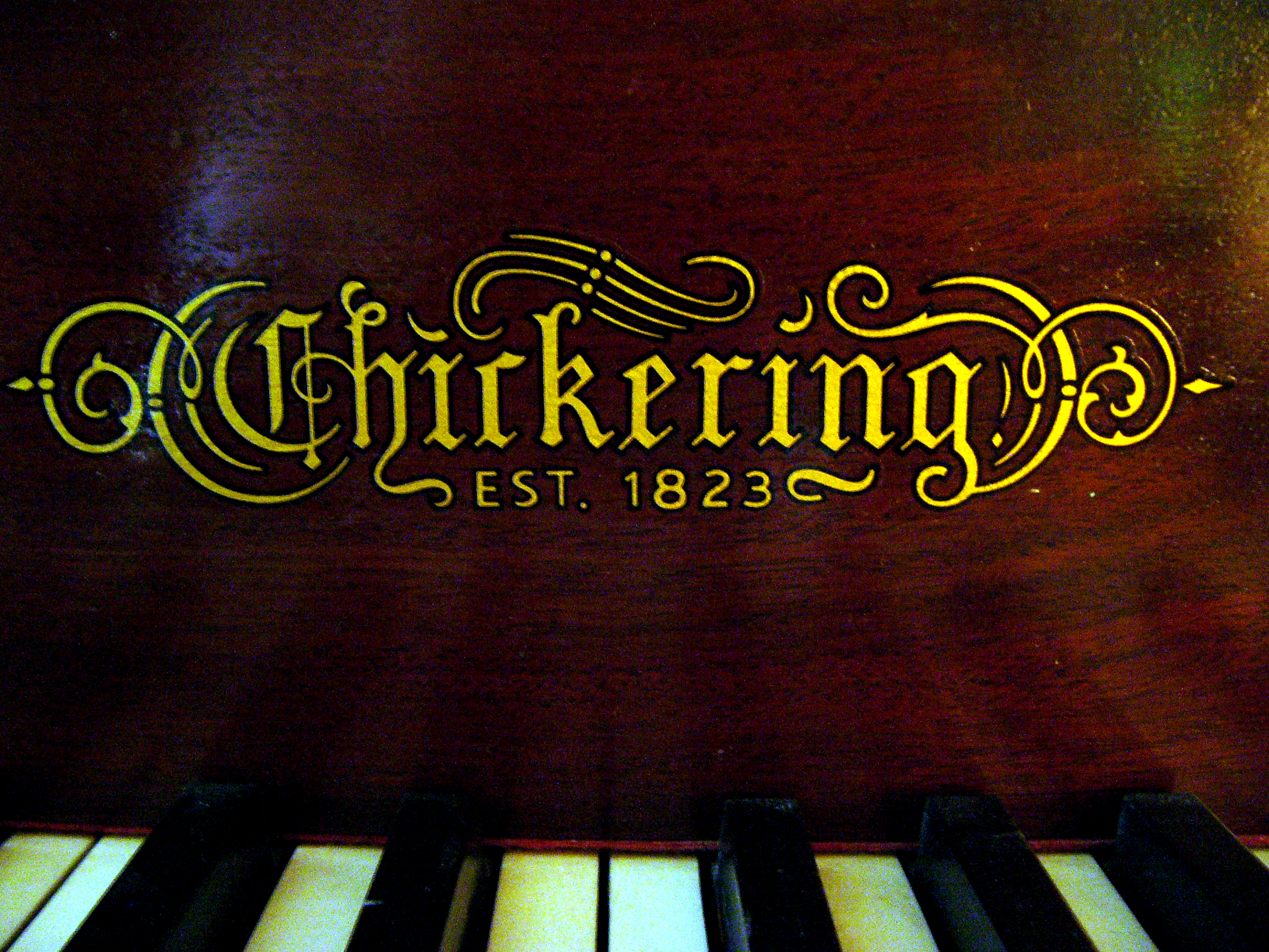 Chickering piano